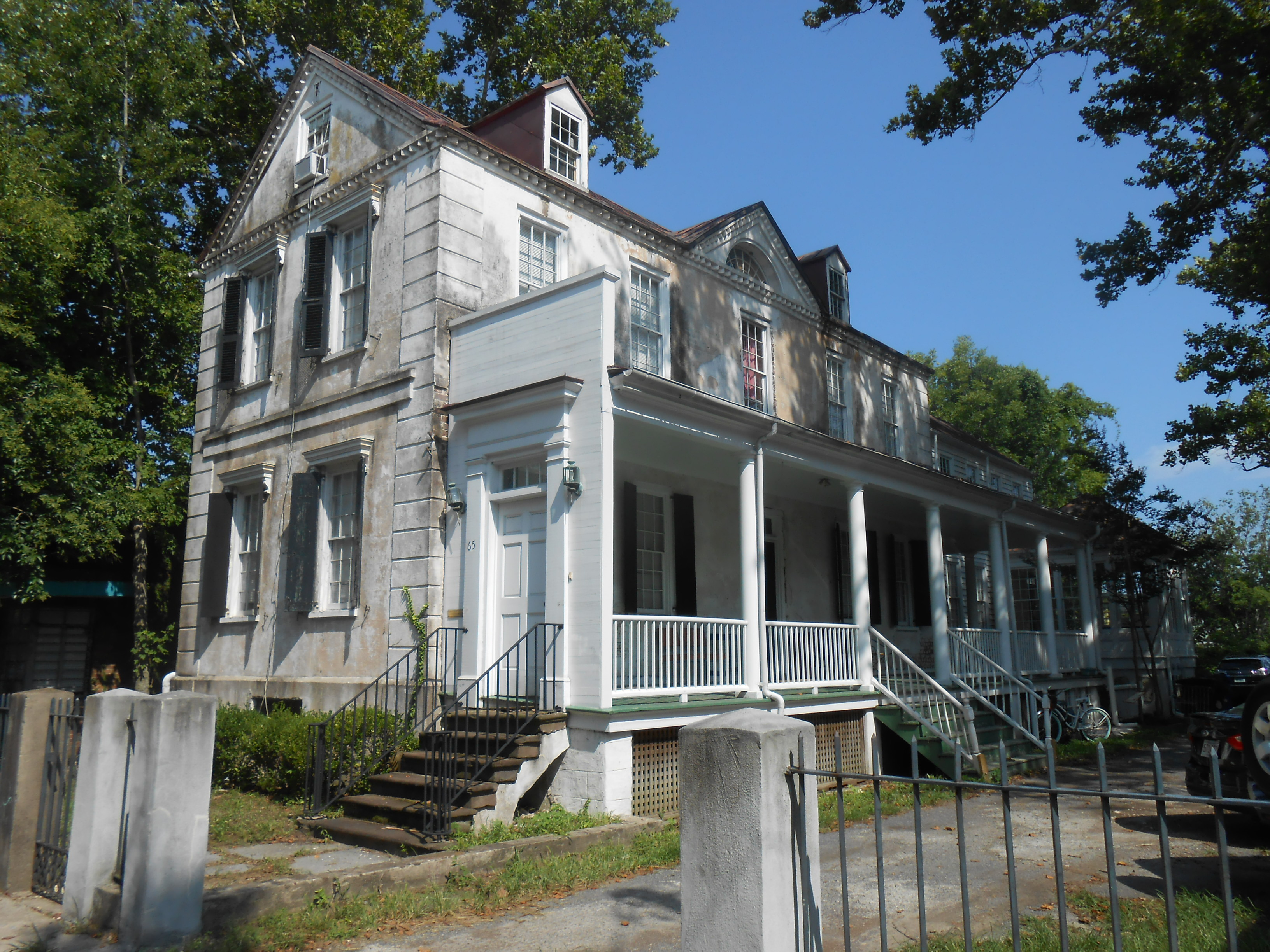 James Sparrow House, 65 Cannon Street, Charleston, South Carolina